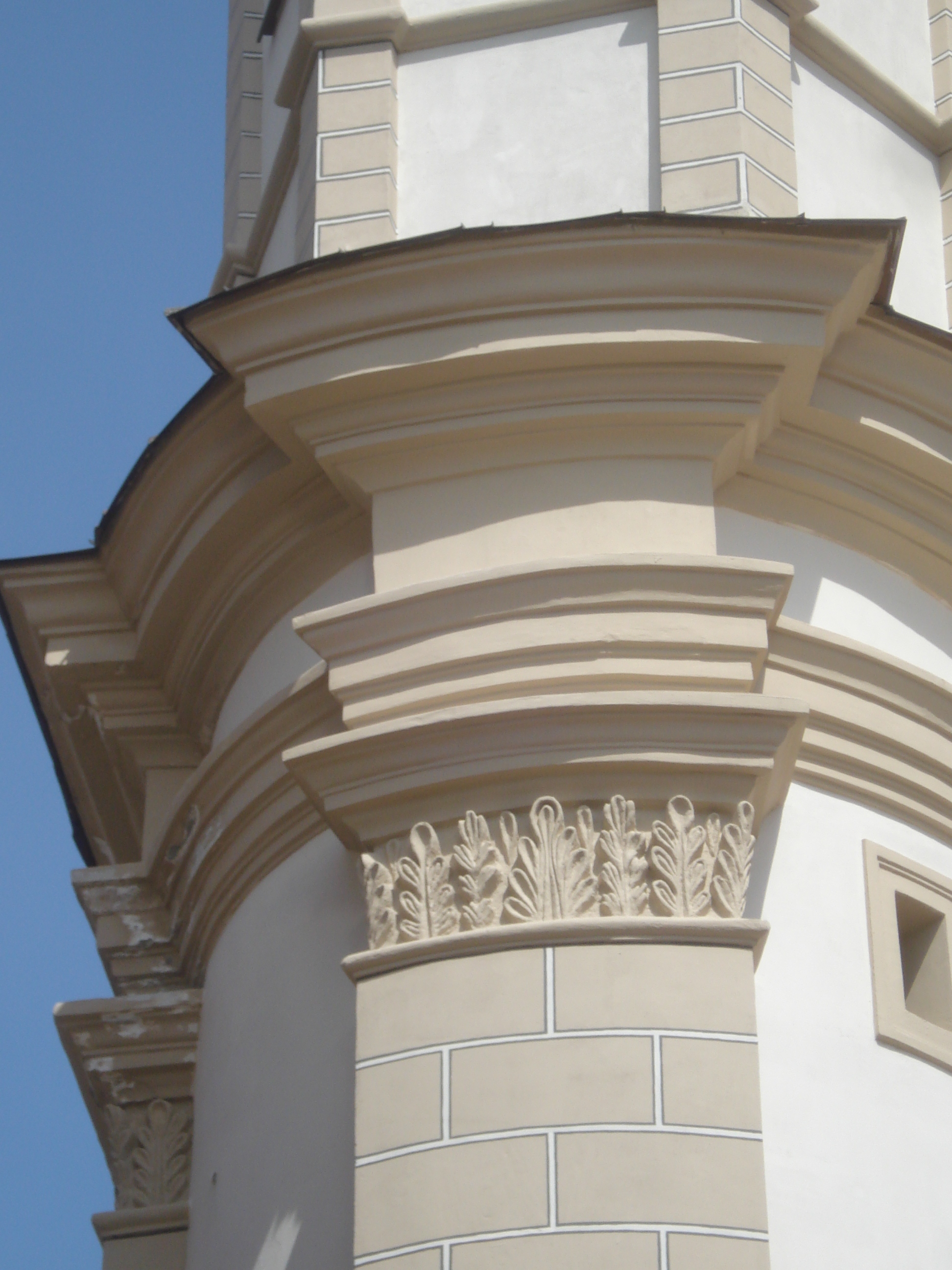 Leaf of the rue as motif in the capital of the pilaster. Church of St. Michael in Vilnius